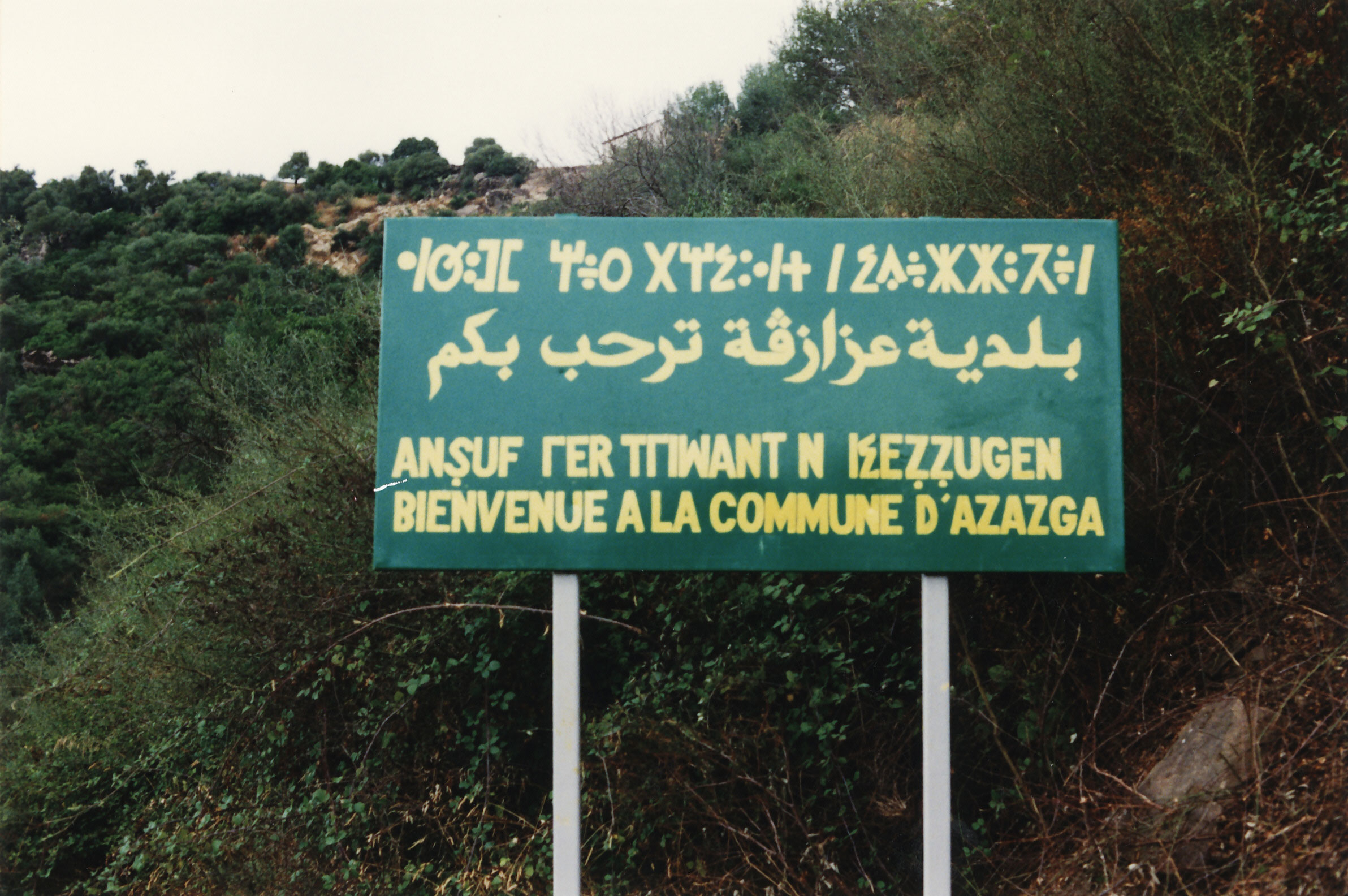 Trilingual pan near Azazga Algeria Kabylia ( "welcome to Azazga town")